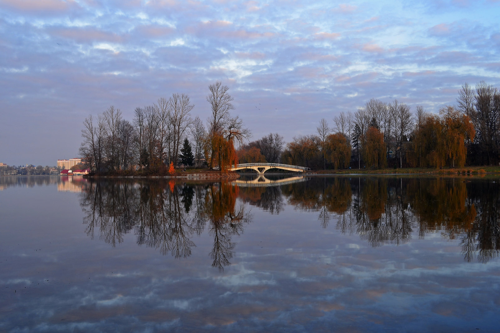 Bridge on the city lake near the Taras Shevchenko Park in Ivano-Frankivsk